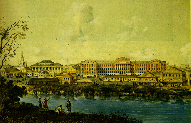 Building of the Moscow State University on the Mokhovaya Street (now the dean's office).